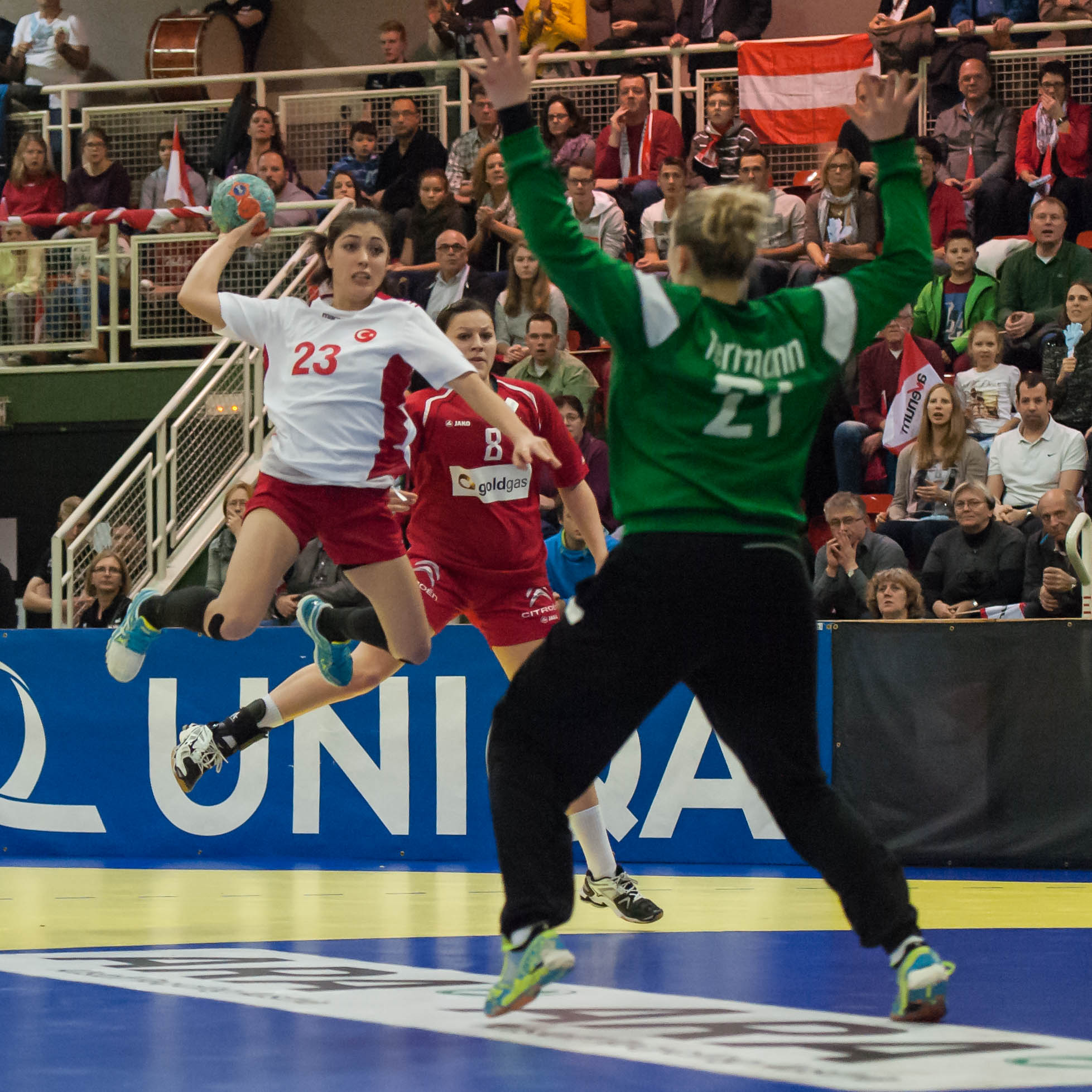 2015 World Women's Handball Championship Qualification 2014-12-06: Yasemin Şahin